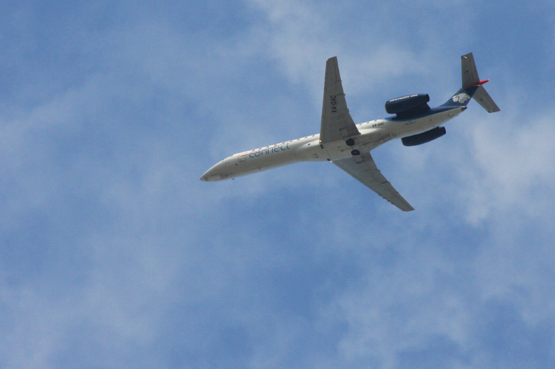 Embraer ERJ-145 from Aeromexico connect in route from the Tampico International Airport (IATA: TAM). Taken from the benches of the Madero City Sport Complex.